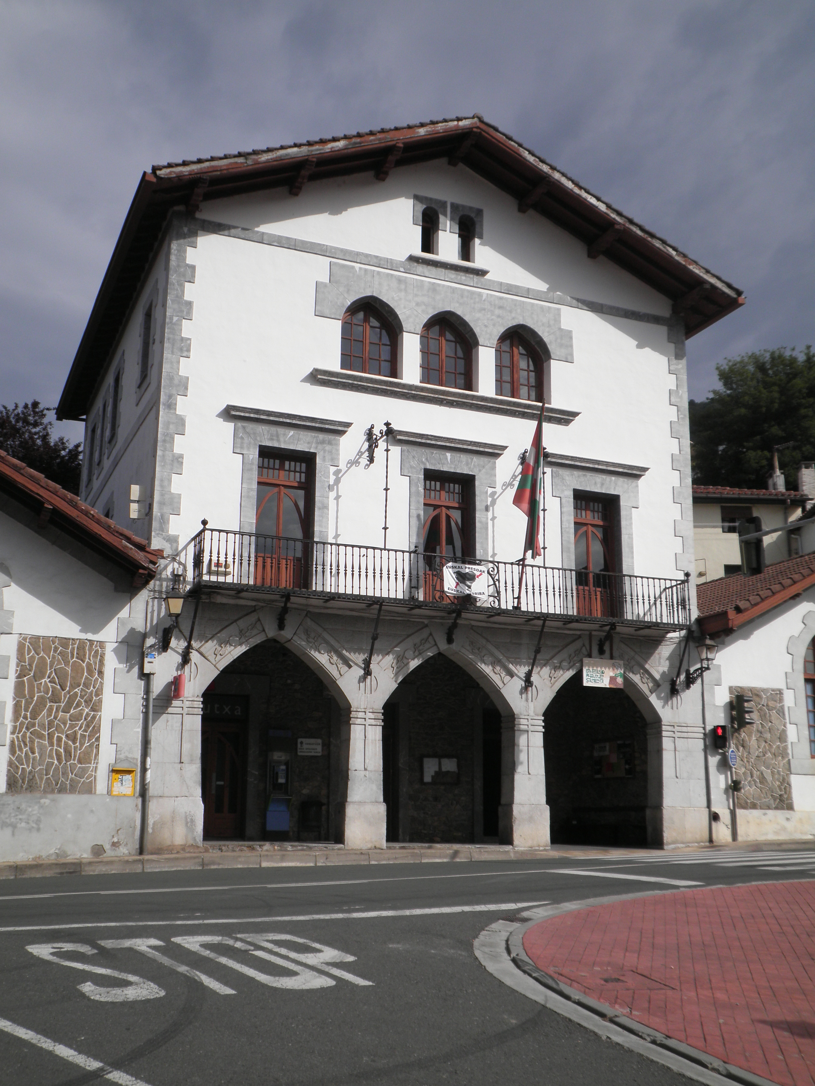 Townhall of Errezil.